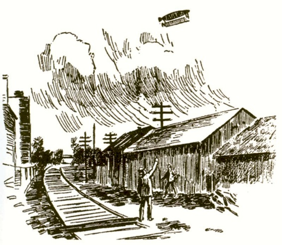 Mystery airship, newspaper illustration using the McCanns Rogers Park photo